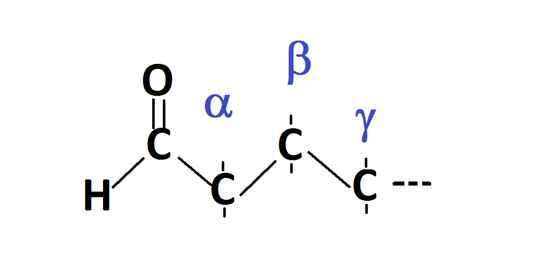 place around carbonyl fonction